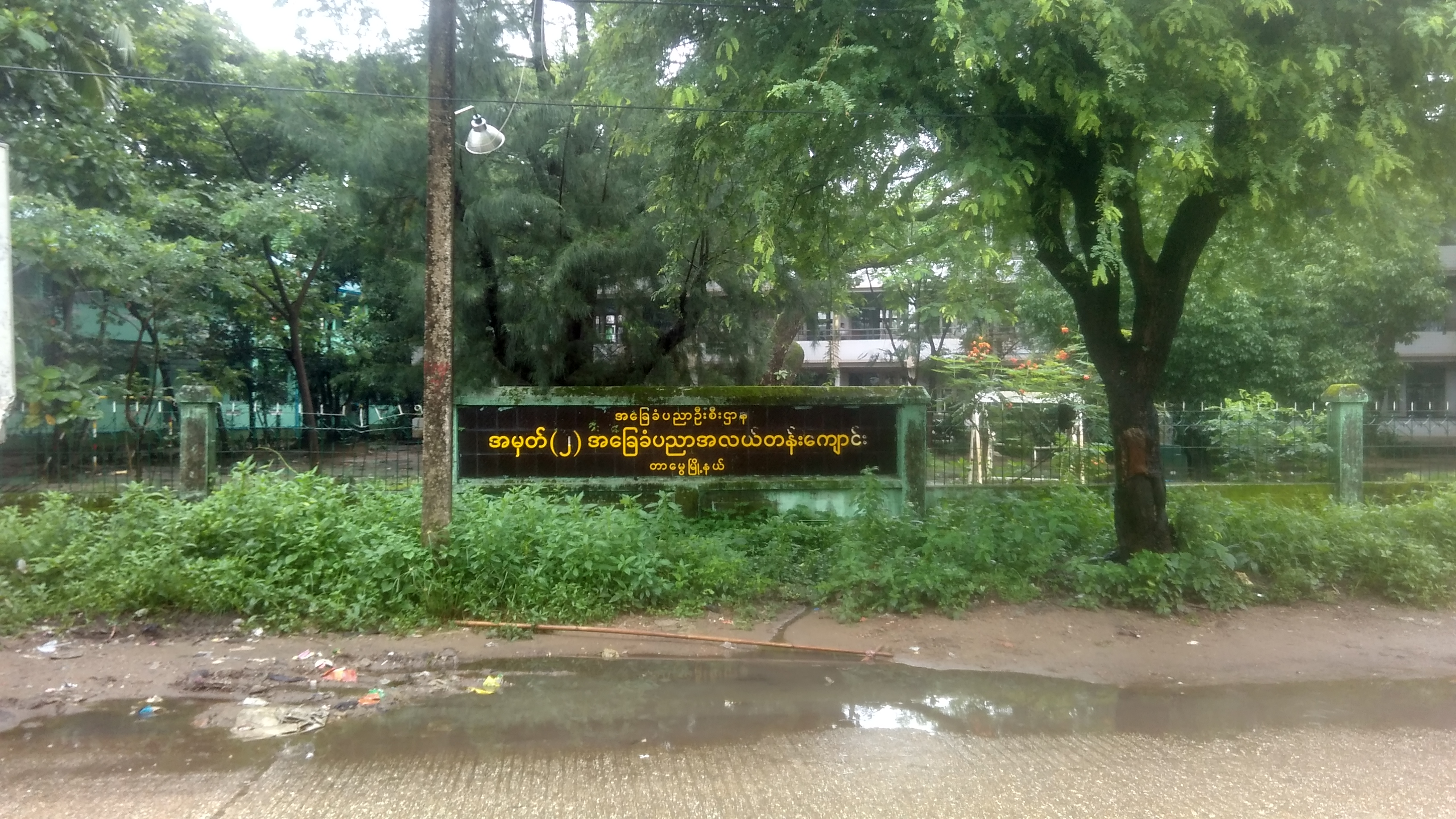 B.E.M.S (2) Tamwe Аҧсшәа: အမှတ် (၂)၊ အခြေခံပညာအလယ်တန်းကျောင်း (တာမွေမြို့နယ်)